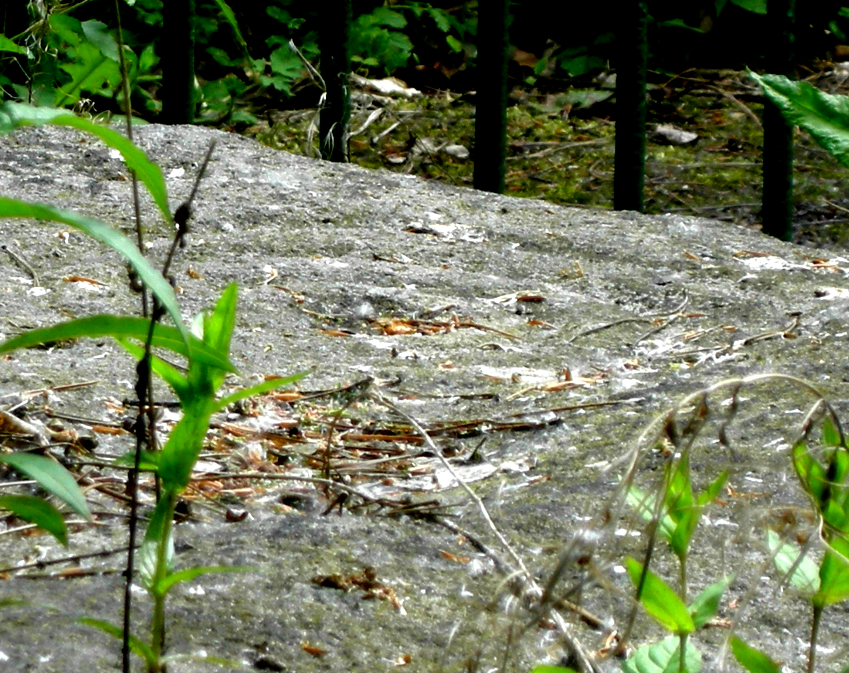 Neolithic cup and ring engravings on stones preserved at Ilkley, West Yorkshire, England. These are related to displays on cup and ring stones at Manor House Museum.